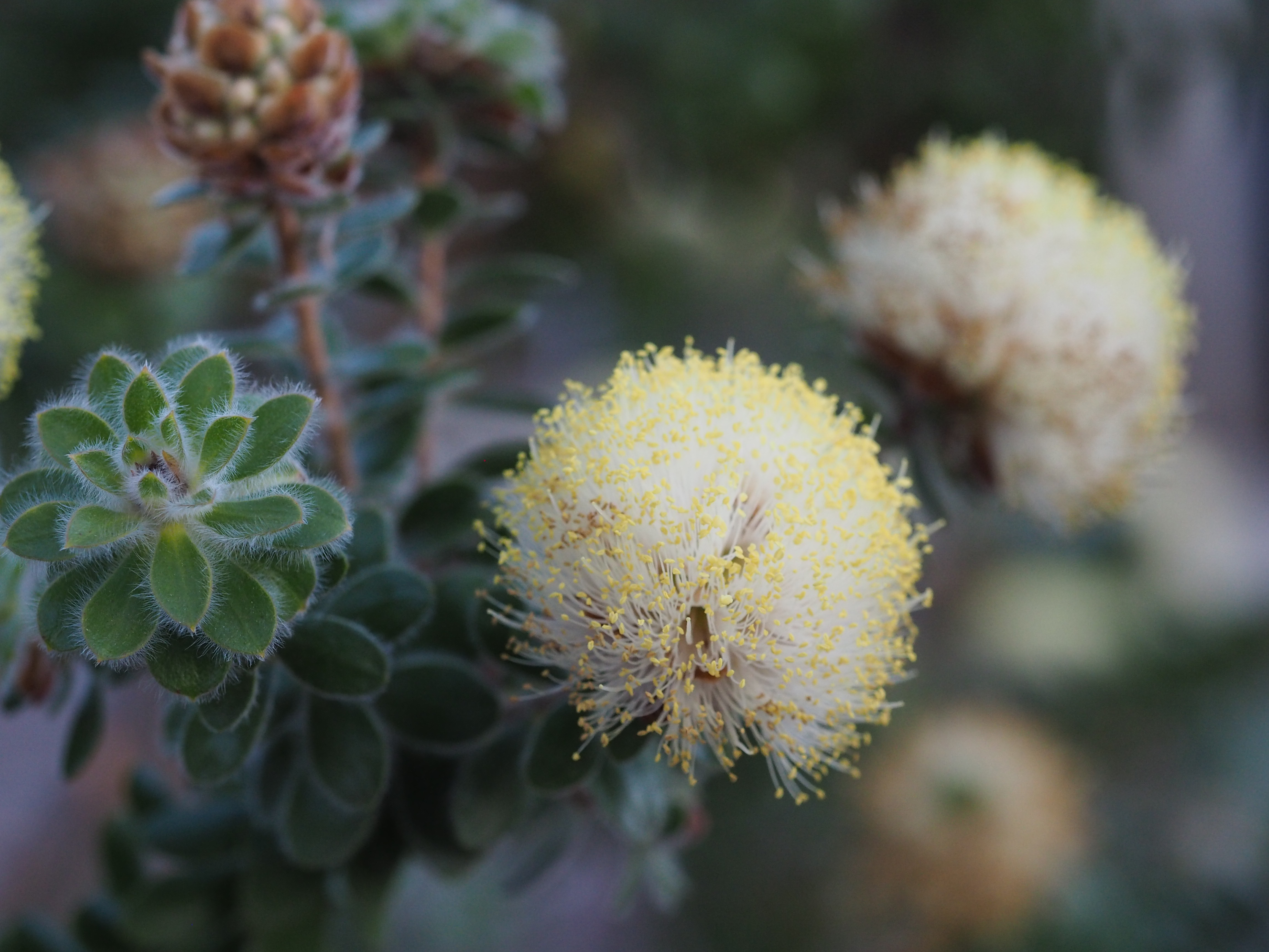 Melaleuca megacephala (cultivated) in Eneabba